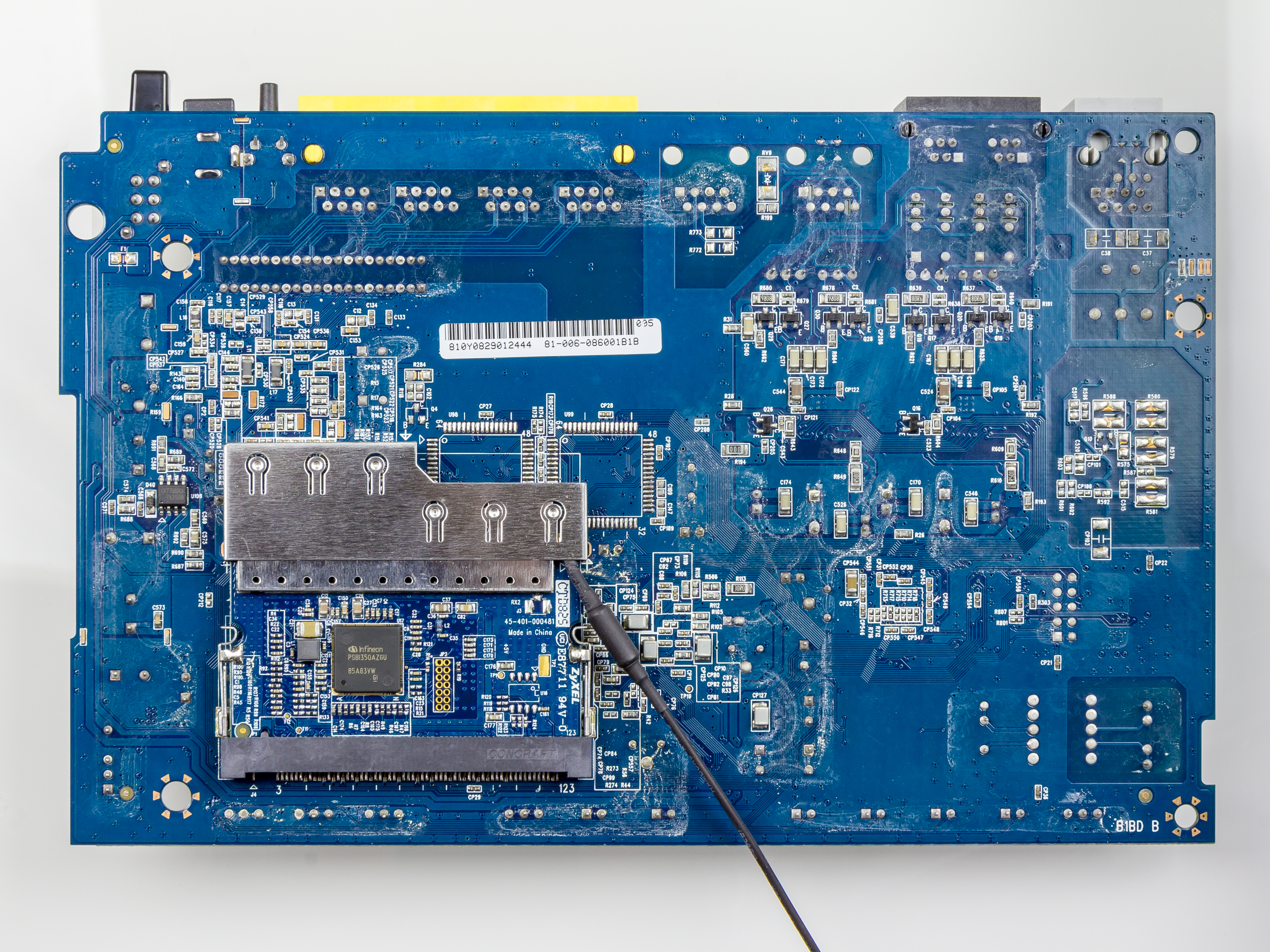 Mainboard of DSL Router Zyxel P-2602HW-D7A